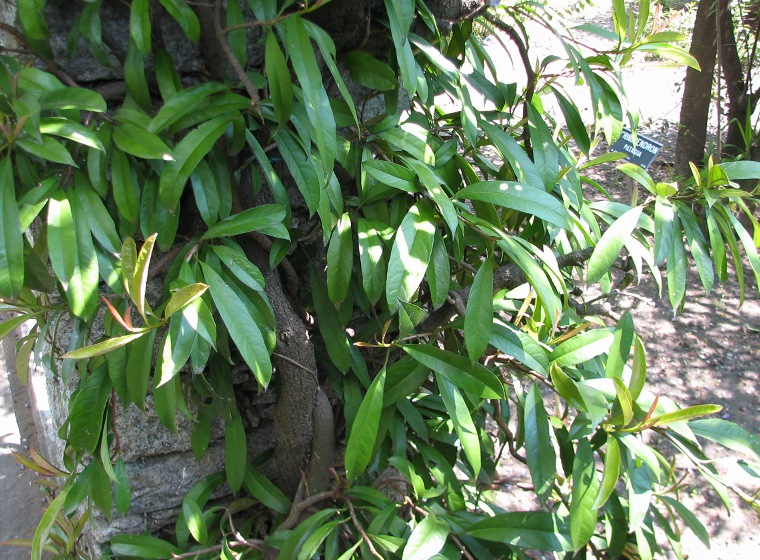 Pileostegia viburnoides in Villa Taranto Botanical Garden (Verbania, Italy)